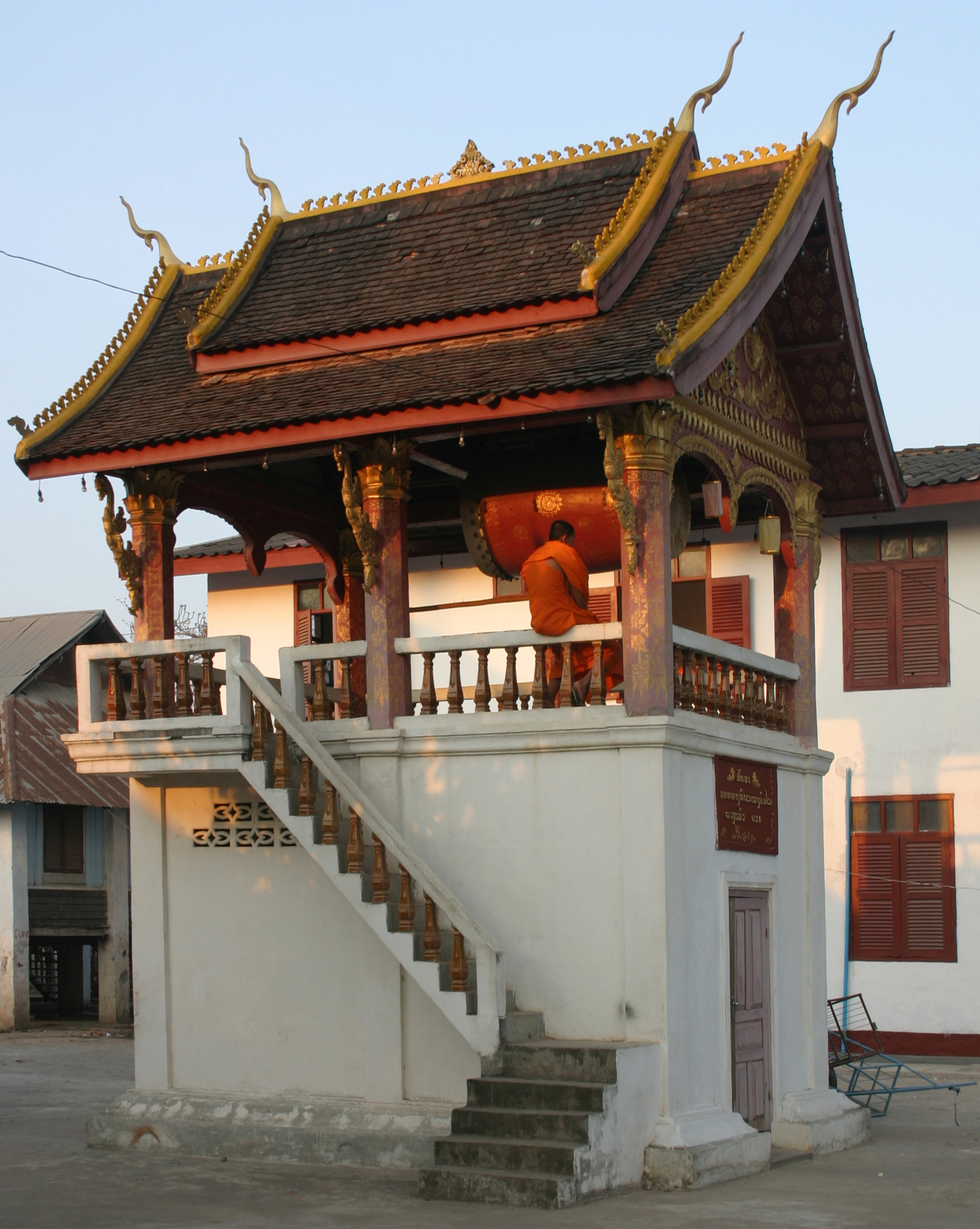 Wat Manorom in Luang Prabang in Laos